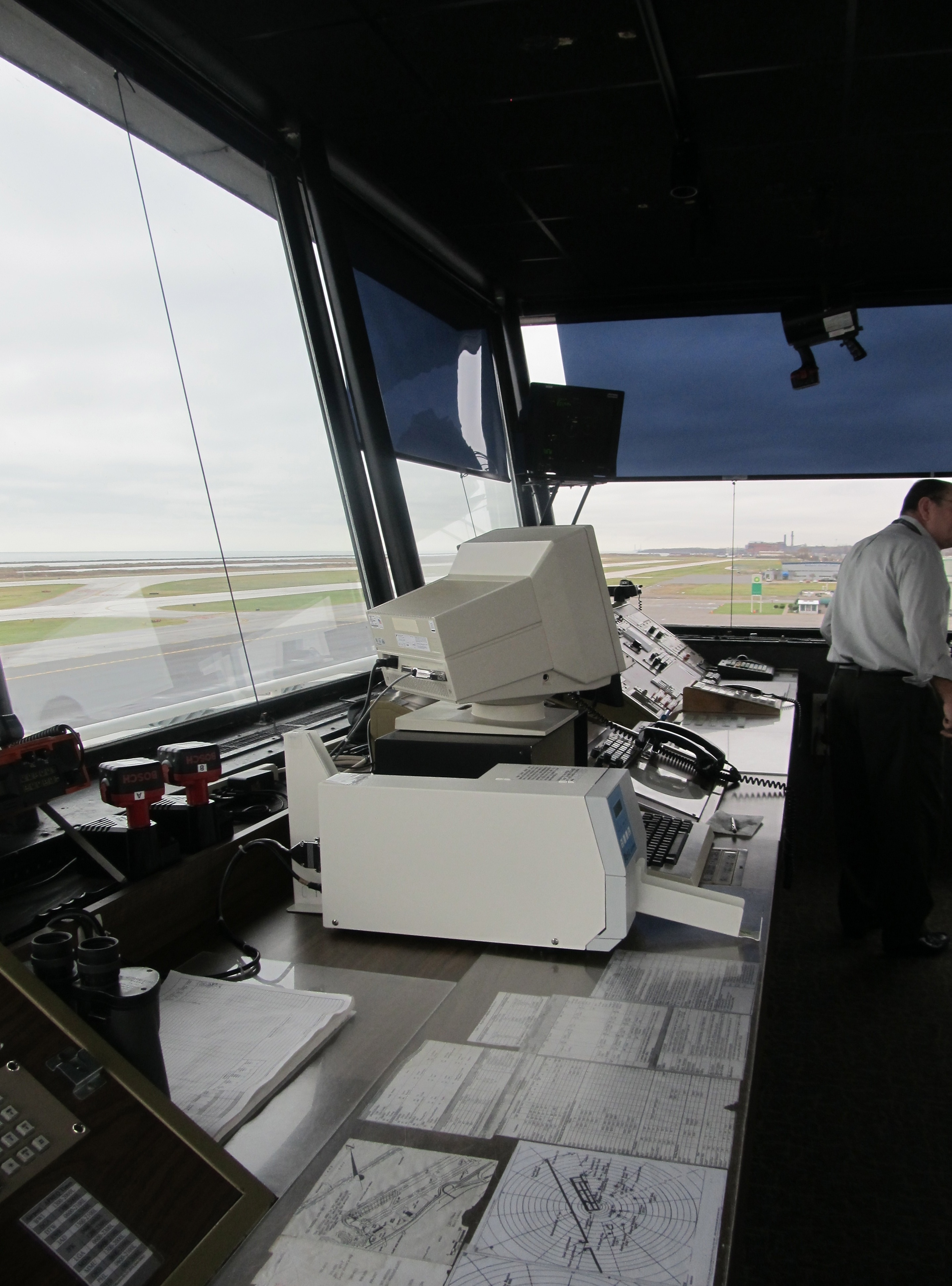 Inside view of the Air Traffic Control Tower at Burke Lakefront